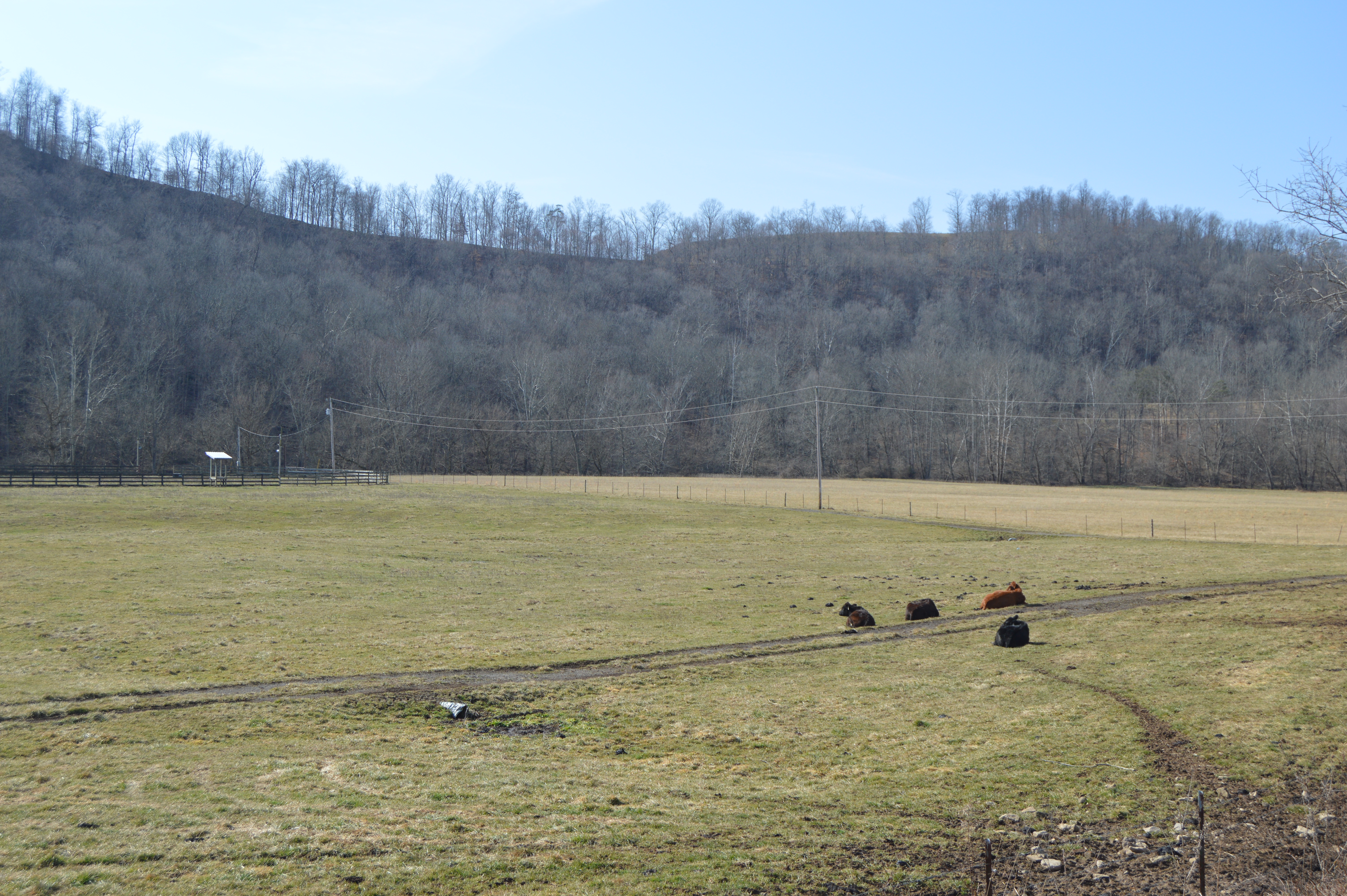 Fields along State Route 378 just southeast of Aid in the northeastern corner of Lawrence Township, Lawrence County, Ohio, United States. In the distance, at the edge of the fields, Symmes Creek flows at the base of the hillsides.